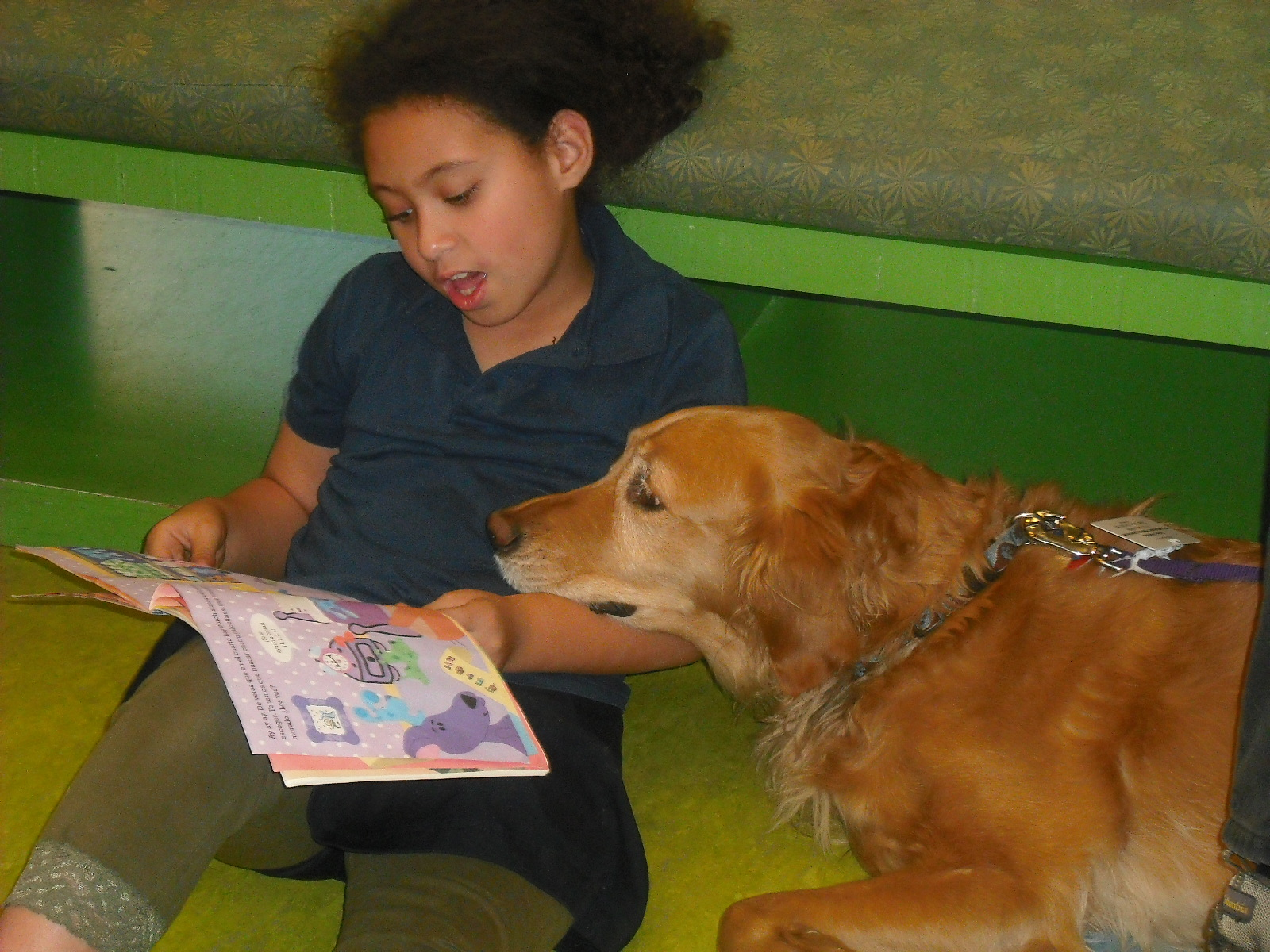 girl and dog with book